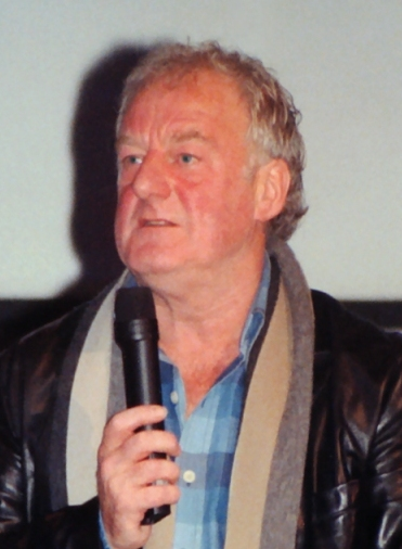 British actor Bernard Hill at the Lord of the Rings-Convention Ring*Con 2004 in Bonn, Germany.